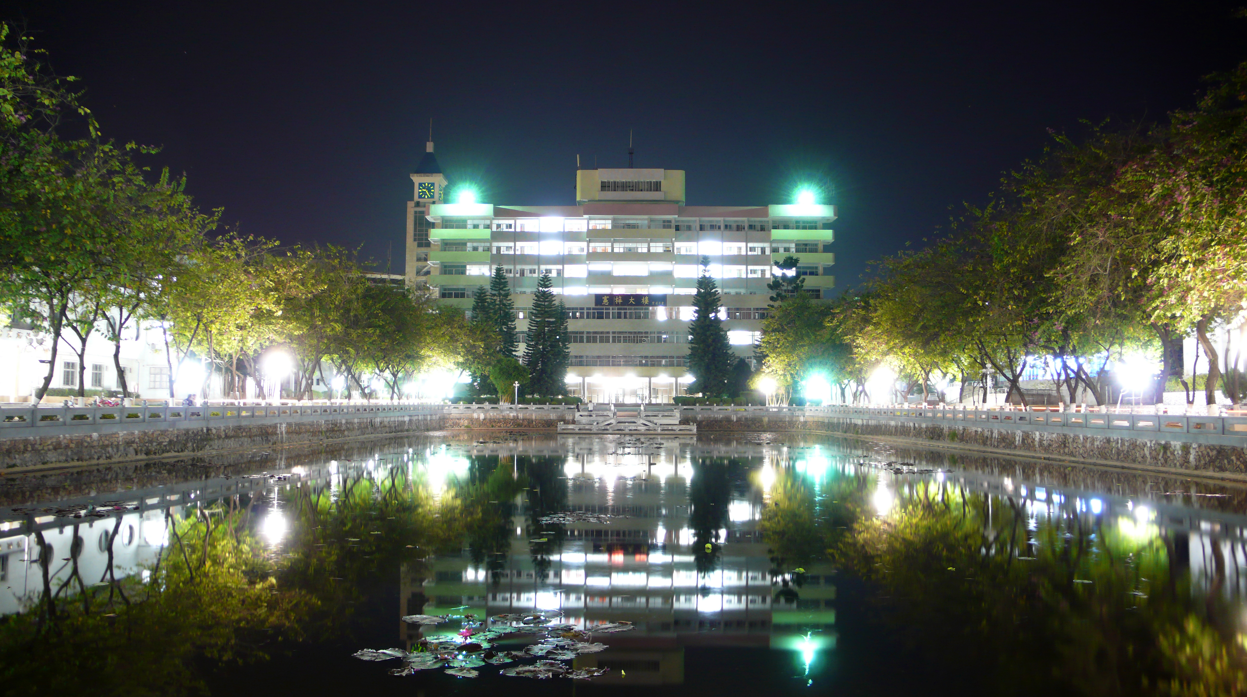 Night view of Jiaying University in Meizhou